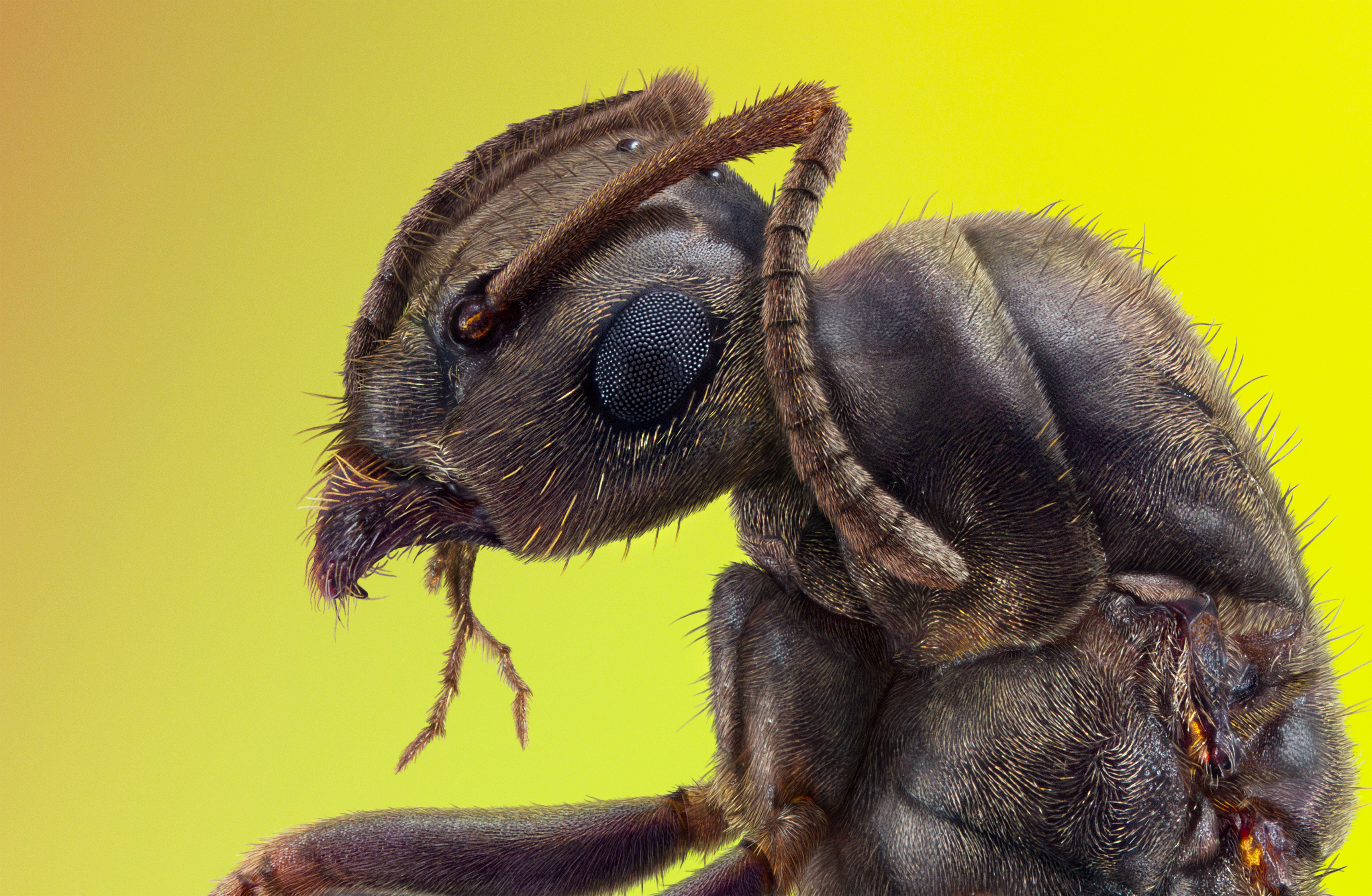 Extreme macro portrait of an ant taken with two lenses SMC Takumar 200mm f/4, which was made in 1982, and a retro lens Zenitar-M 1,7/50, made in 1982, as one lens, stacked from many shots into one very sharp photo.